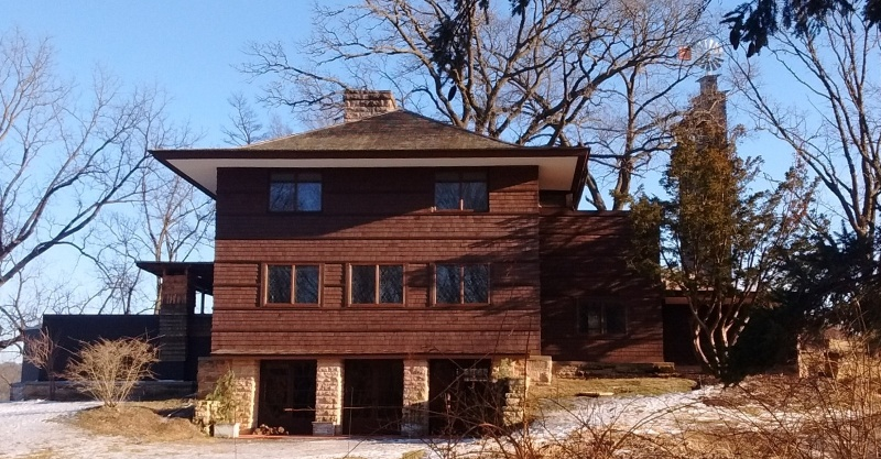 Photograph of the north facade of Tan-y-deri by architect, Frank Lloyd Wright for his sister and brother-in-law, Jane and Andrew Porter. The Romeo and Juliet Windmill, also by Wright, is in the background on the right.